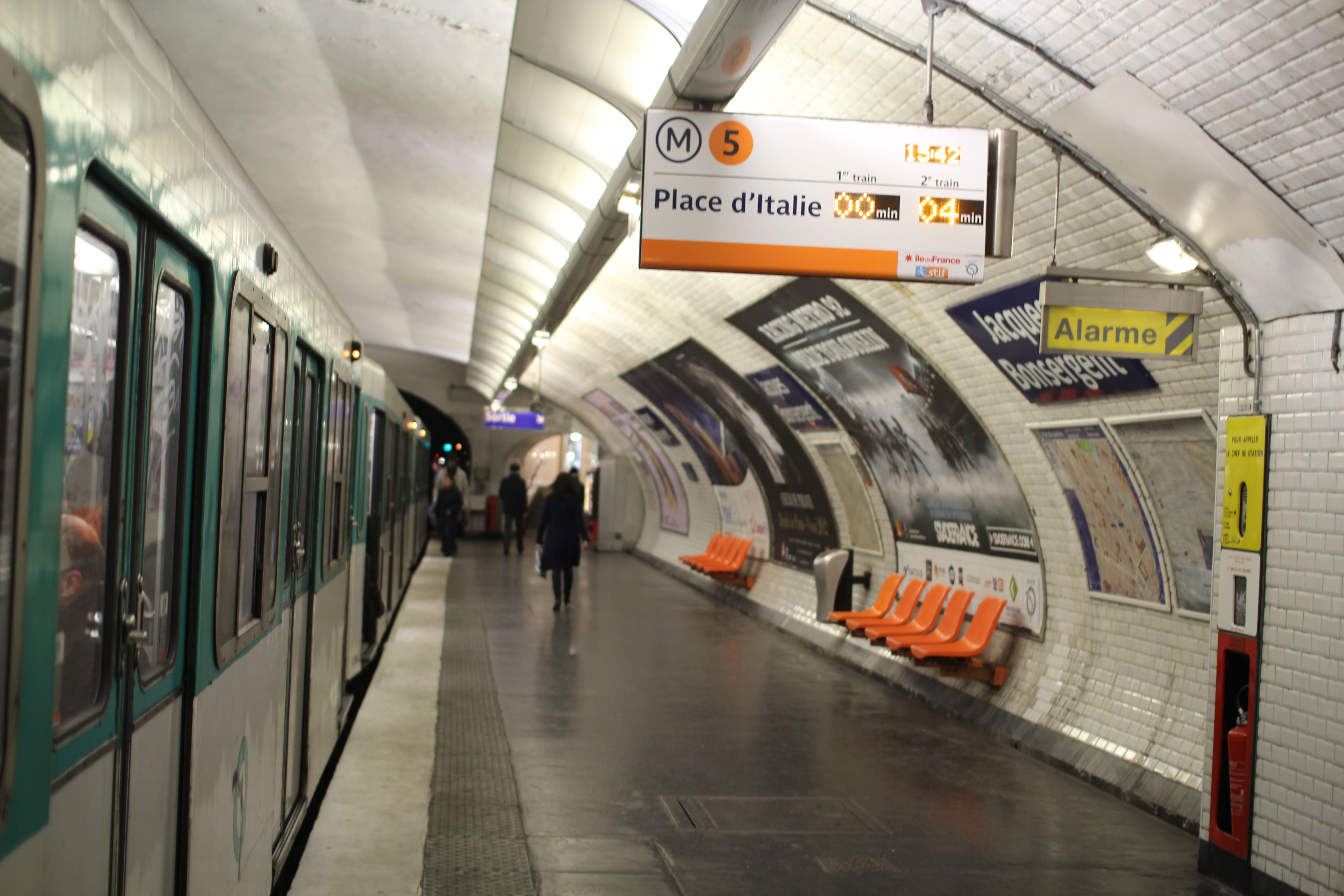 Metro station Jacques Bonsergent on Parisian metroline 5